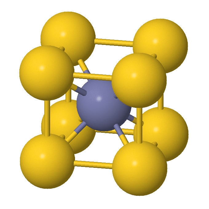 Unit cell of intermetallic AuZn. Au atoms are yellow.